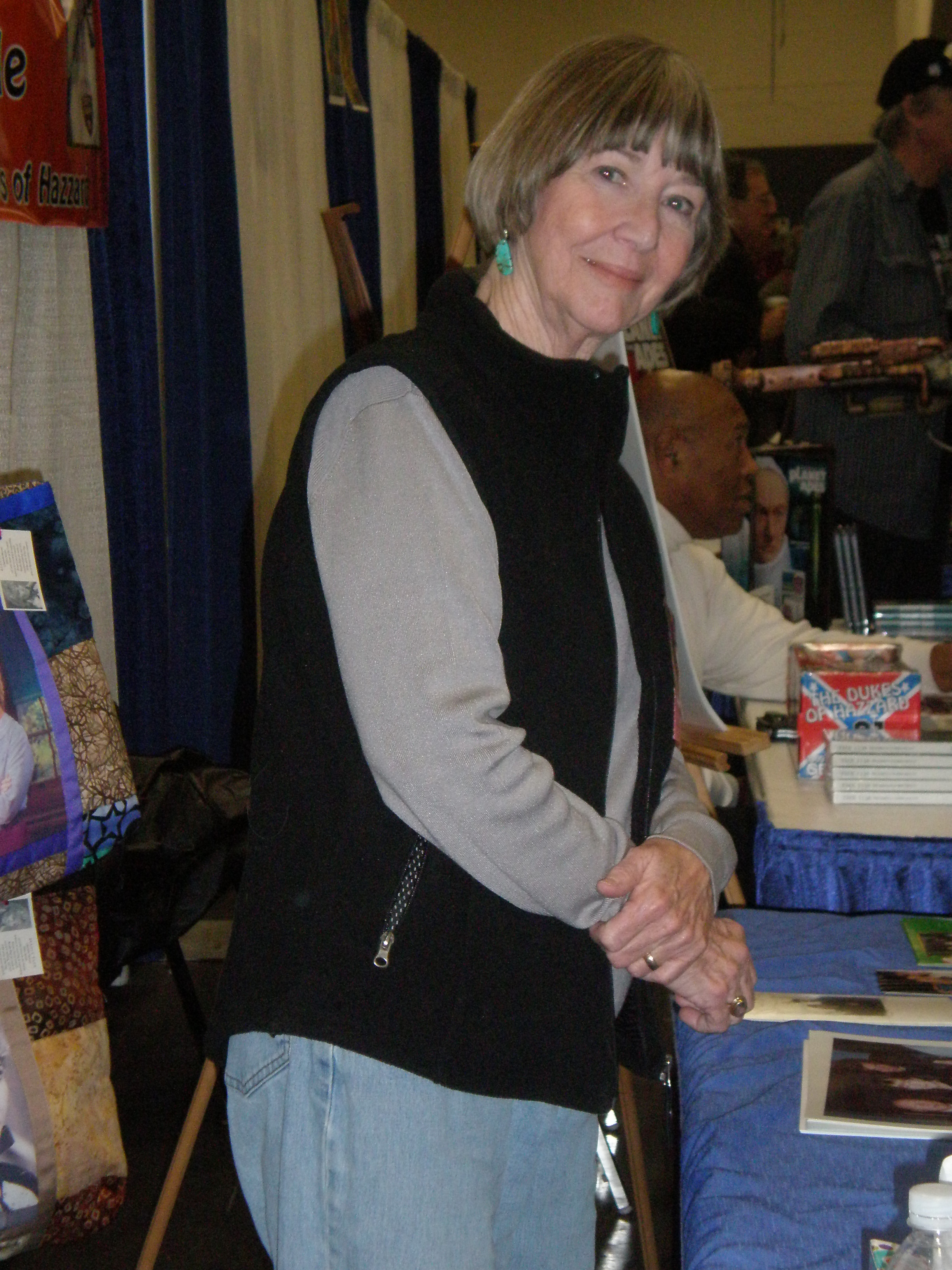 Charlotte Stewart at WonderCon 2009.